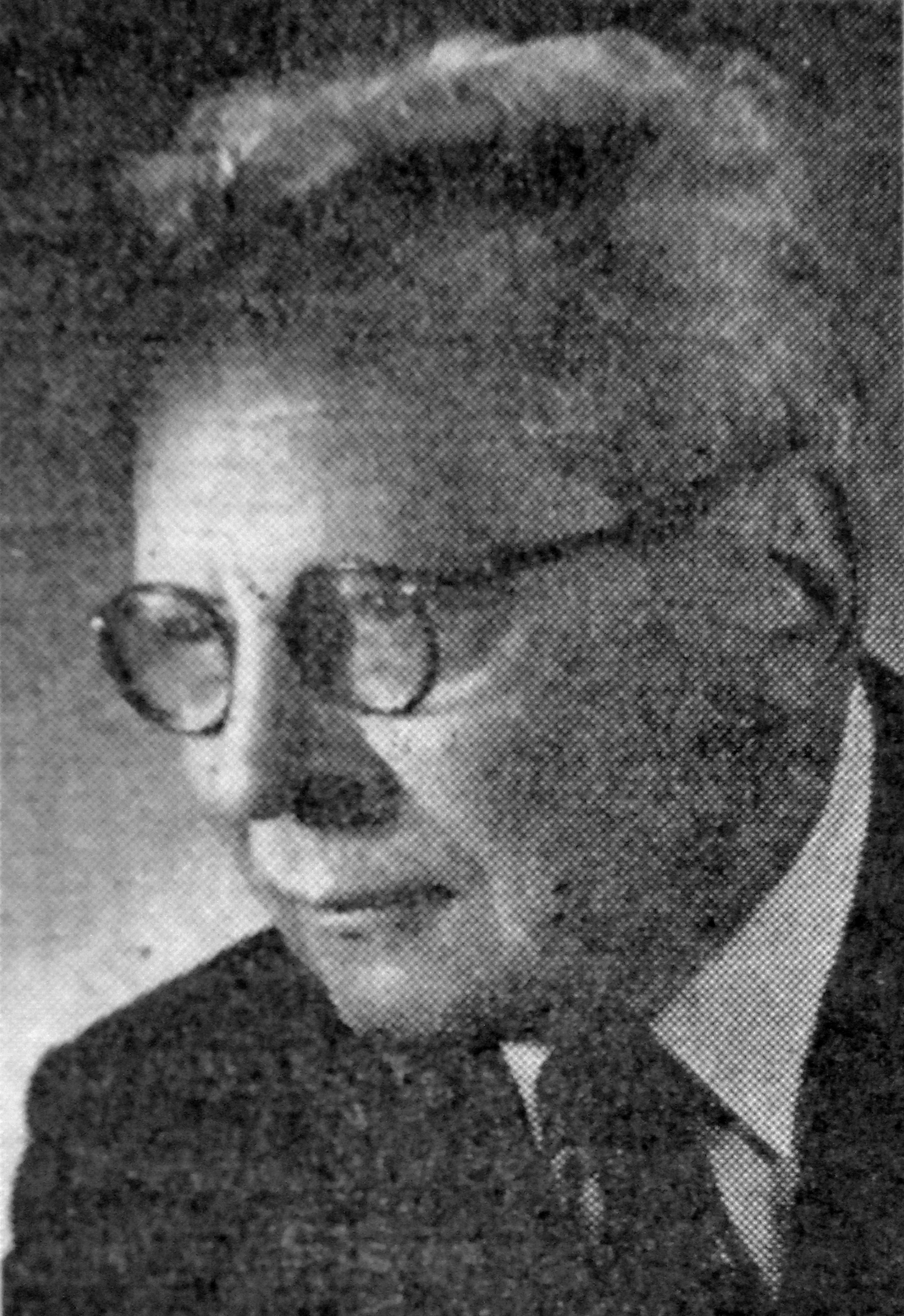 Finnish linguist Lauri Kettunen (1885–1963)